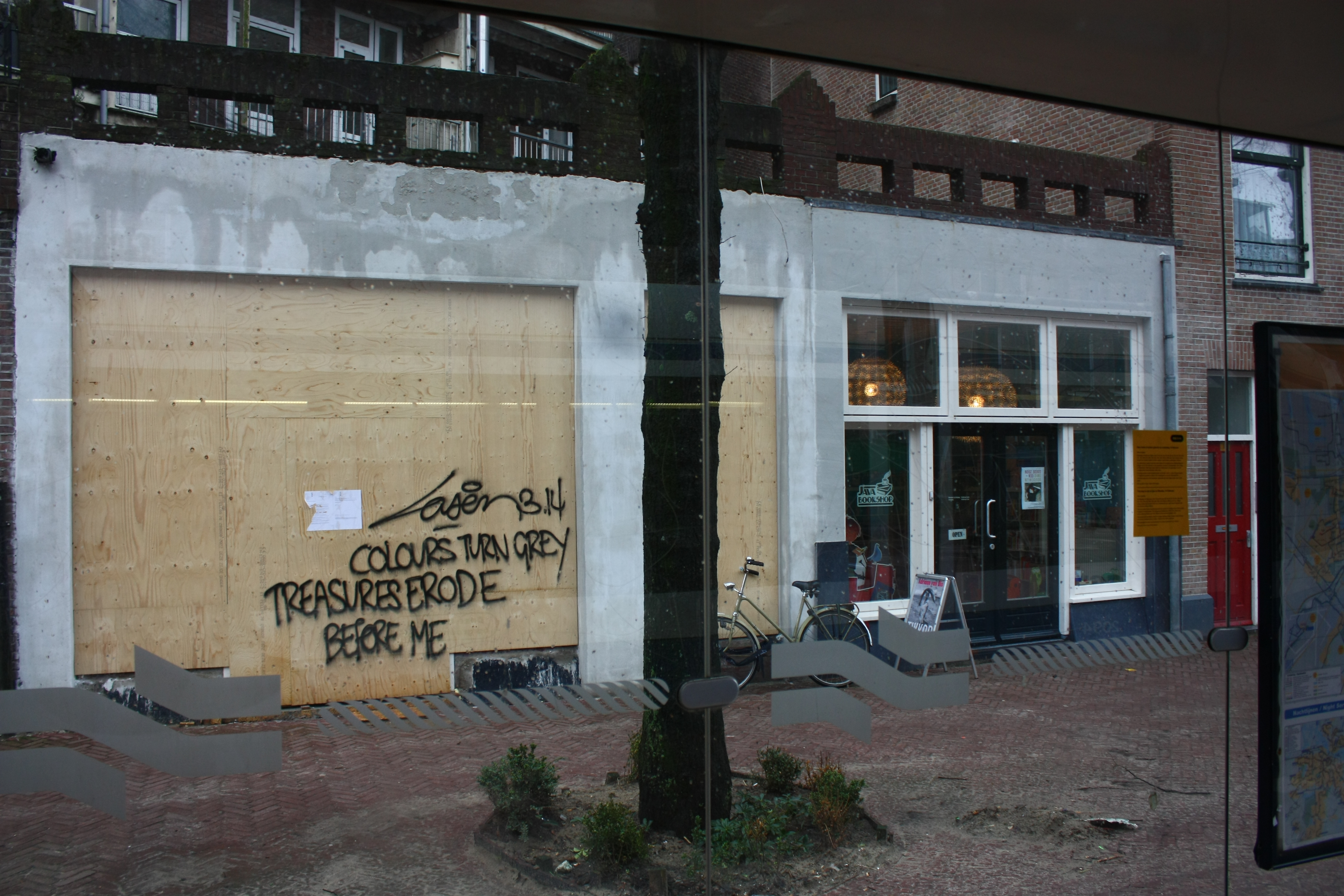 Graffiti from the Amsterdam artist Laser 3.14. In this poem / piece, he writes: "COLOURS TURN GREY / TREASURES ERODE BEFORE ME".